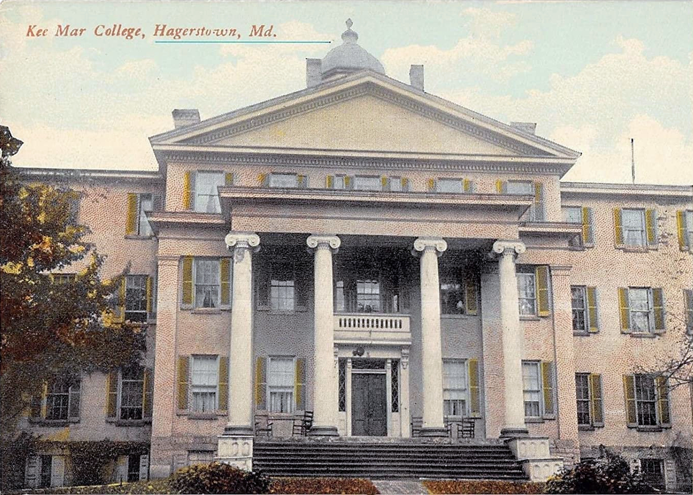 Postcard showing Kee Mar College